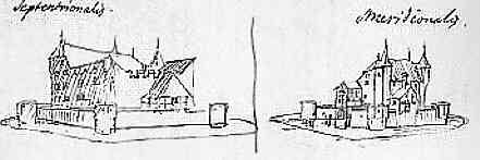 The castle of Pratteln in the north and south-east